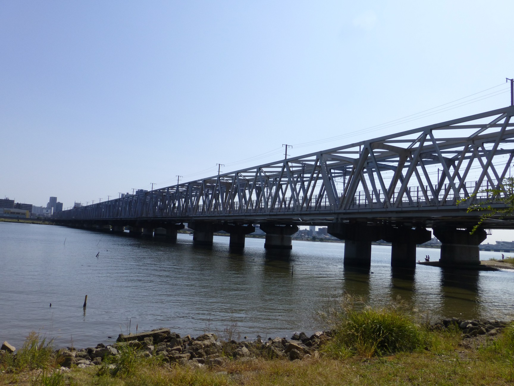 Shimo-Yodogawa bridge on Tokaido main line seen from upbound line side (upstream side).